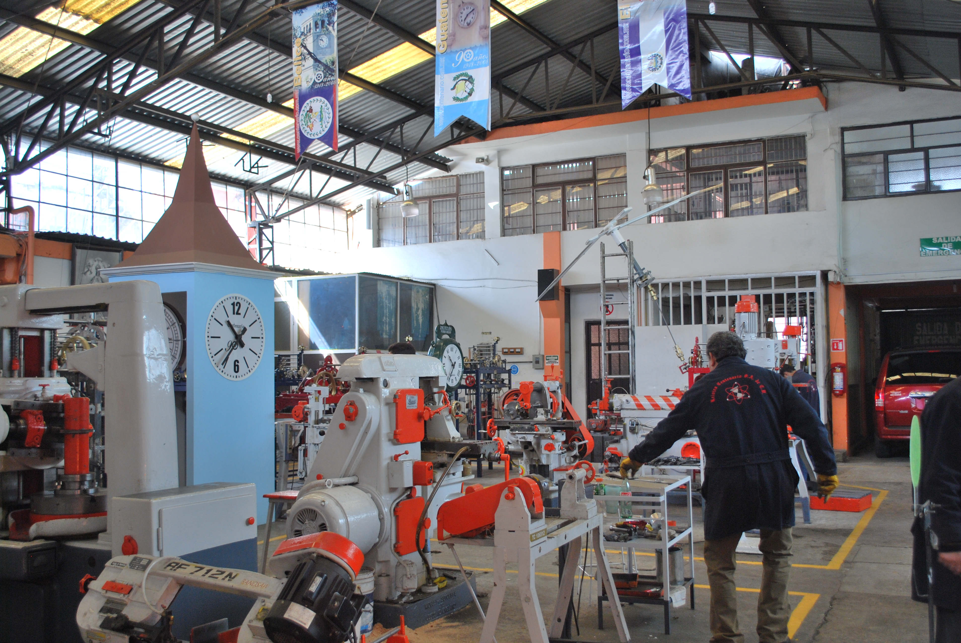 View inside the factory of Centennial Clock in Zacatlán, Puebla, Mexico